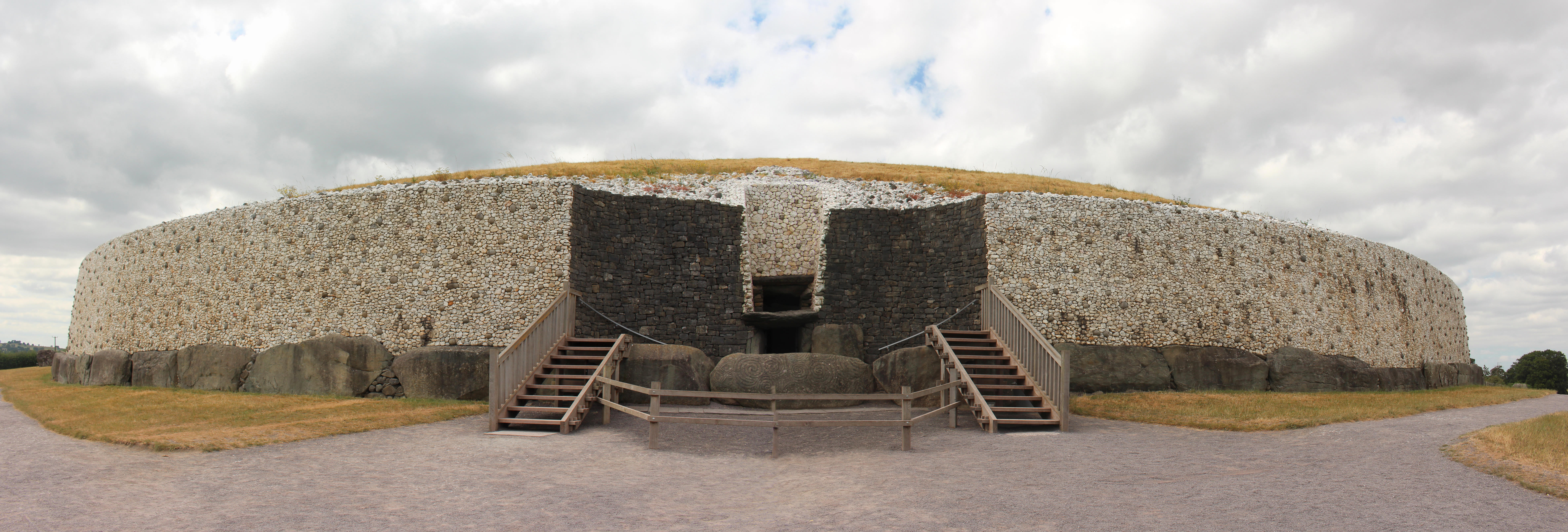 County Meath, Newgrange. Wikidata has entry Q339503 with data related to this item.